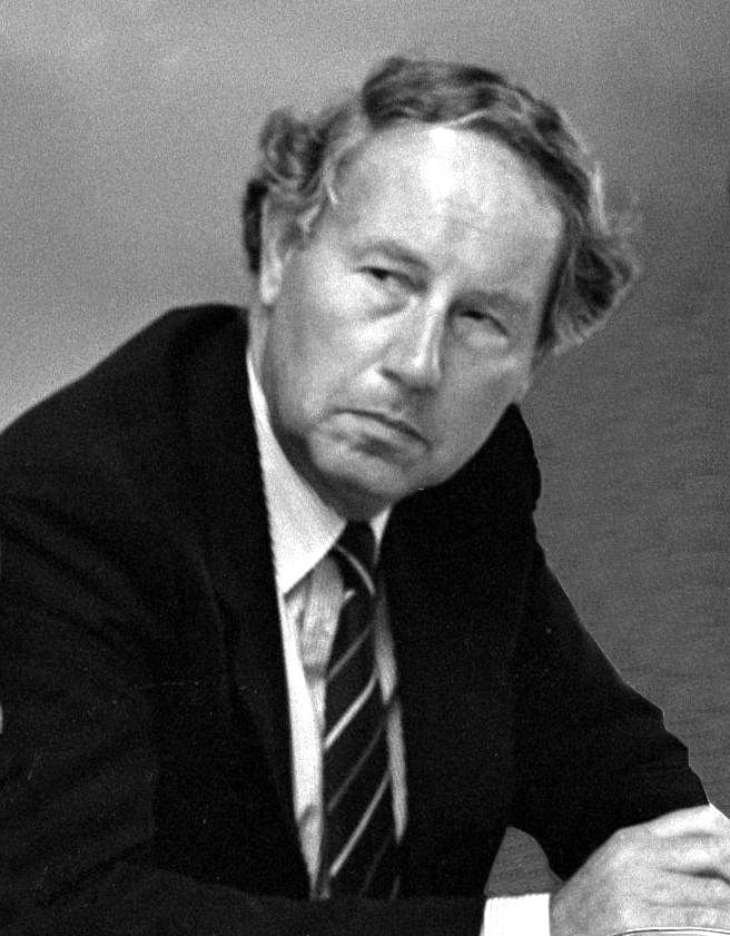 Prof. dr. H. Bosch, 1984